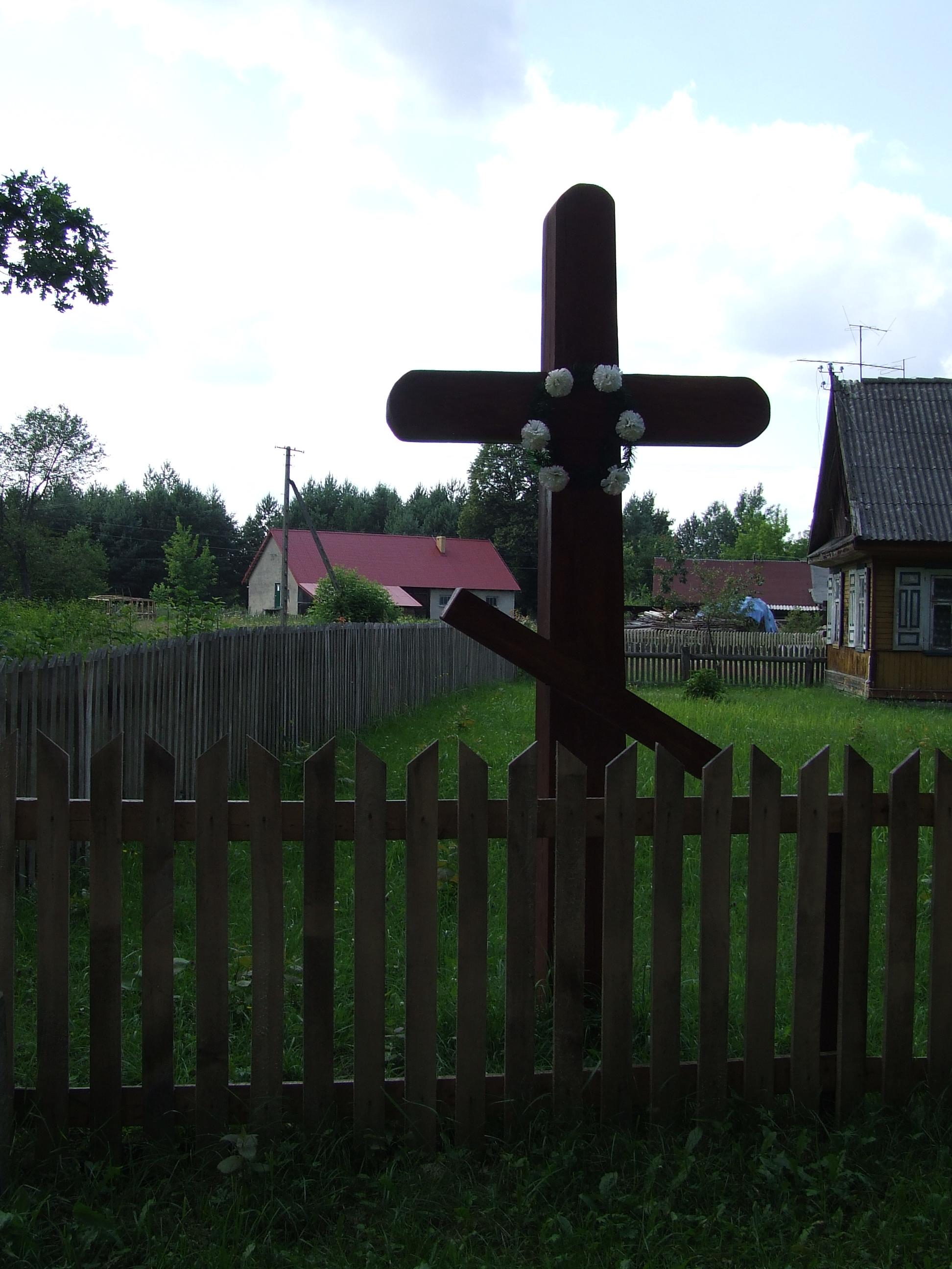 This photo from Podlaskie Voievodeship was taken during Polish Wikiexpedition 2009 set up by Wikimedia Polska Association. The making of this document was supported by Wikimedia Polska.